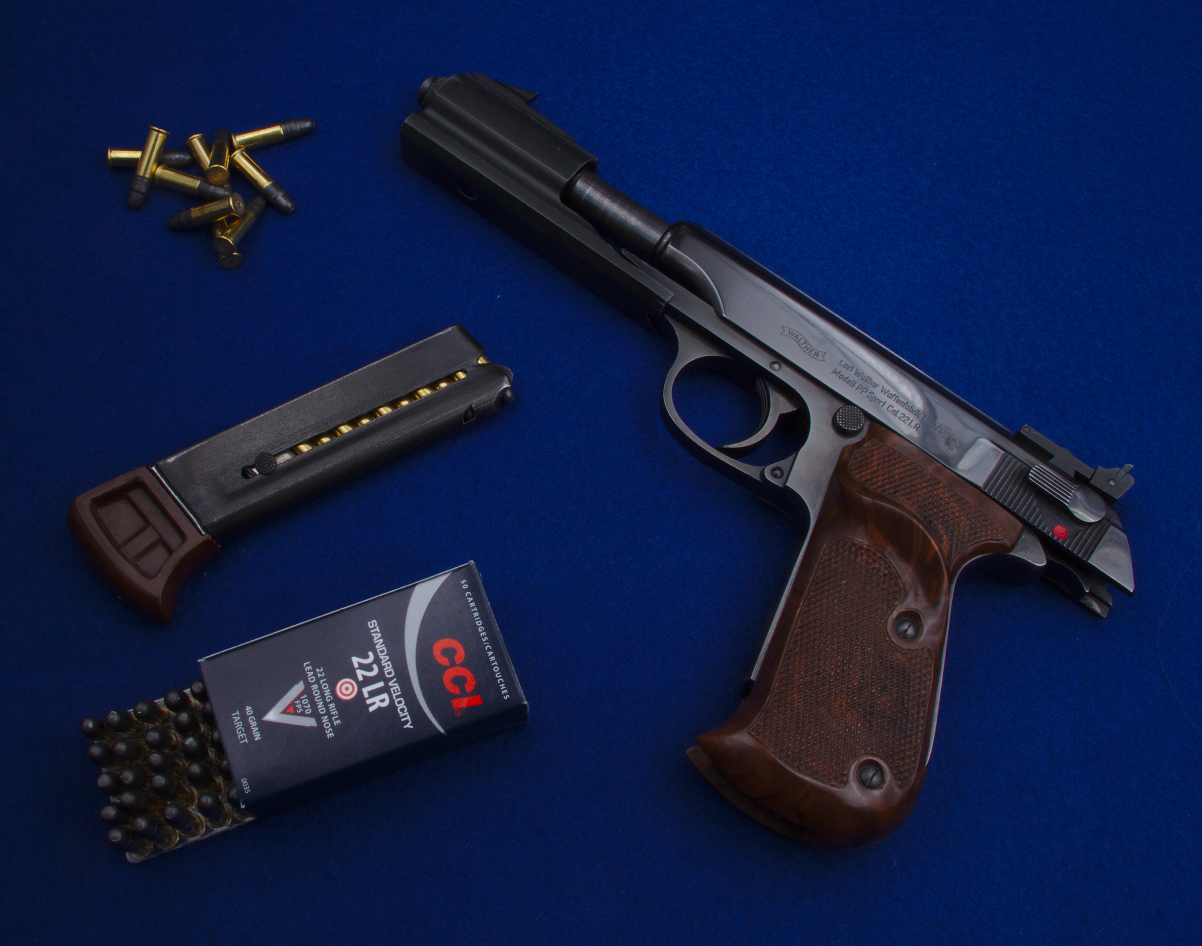 One of my handguns which I used for sports shooting, a Walther PP Sport .22LR pistol. I have been into sports shooting ever since 1998. I started out with rifles and I was actually pretty good at it too. In time though, I lost interest and I have found a new hobby: photography. I shot this picture with two YN460 flashguns at max power, mounted on light stands with shoot-through 43" umbrellas. I used a tripod, a cable release and enabled the mirror lockup on my camera. ISO 100, Daylight whitebalance, f/22 and 1/125 shutter speed at 22mm focal length. Here is a photo of the setup.